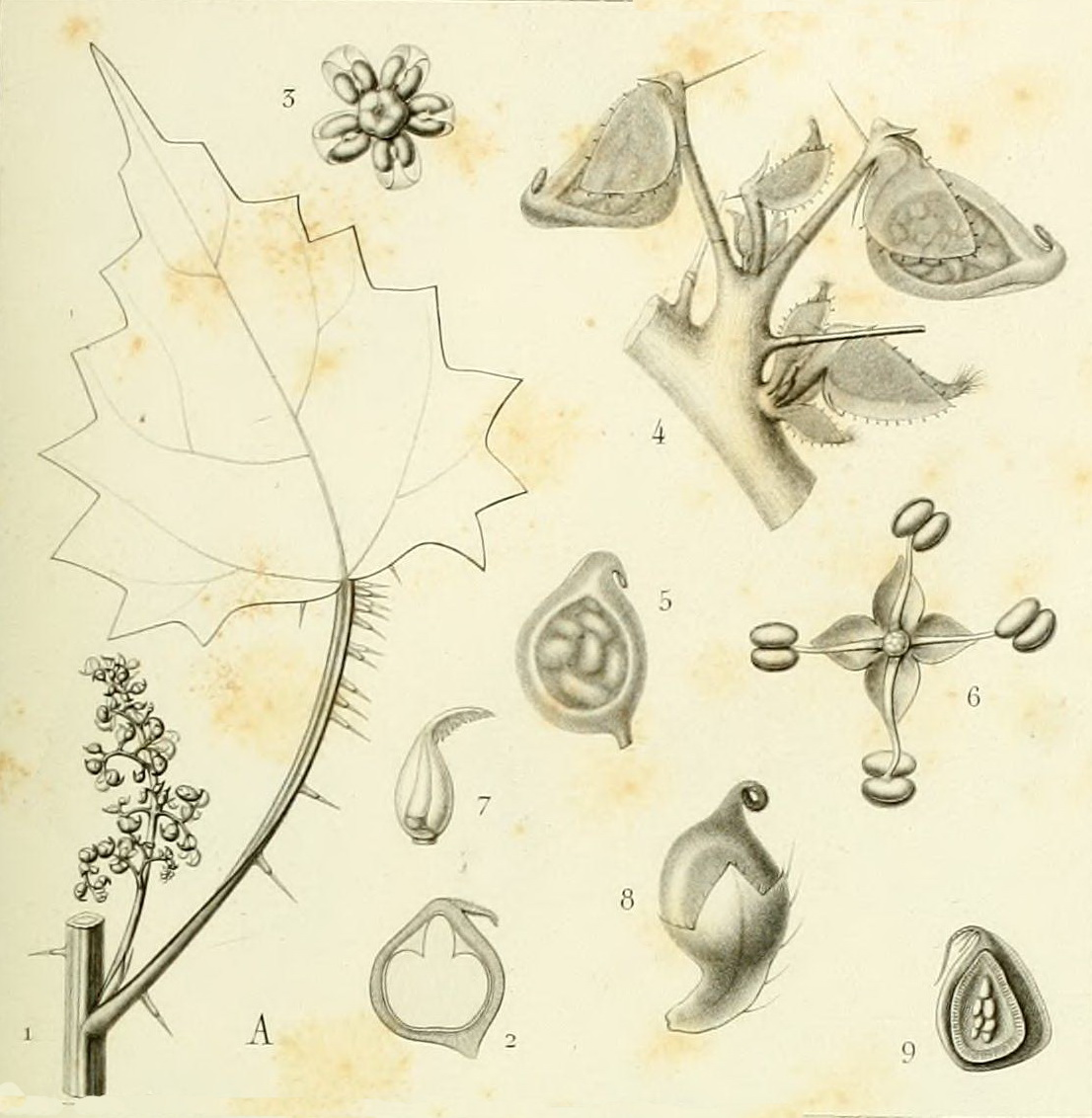 Laportea grossa (Wedd.) Chew [as Fleurya grossa Wedd.] Archives du Muséum d’Histoire Naturelle, Paris, vol. 9: t. 1, fig. A 1-3 (1856-1857)